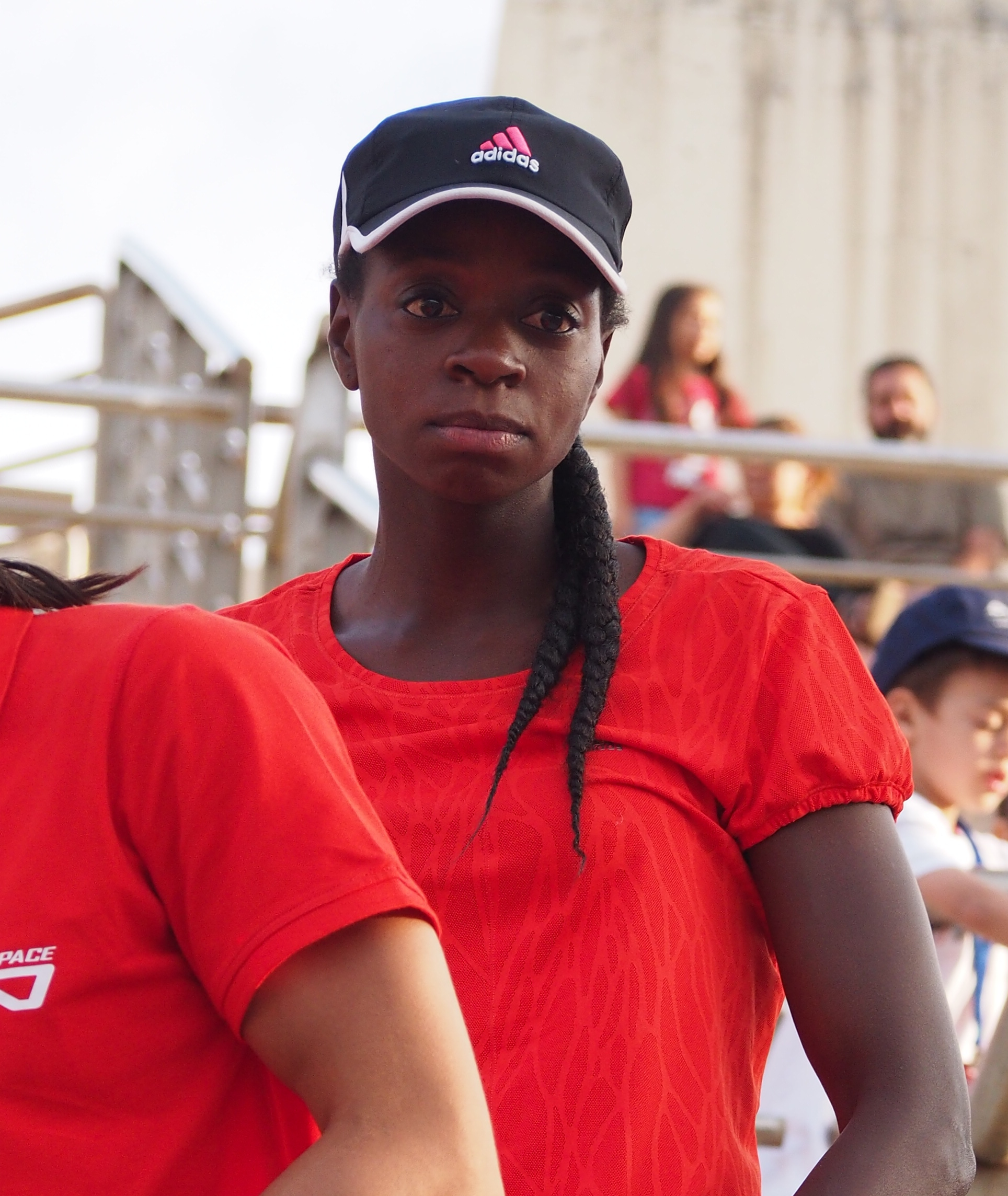 Susana Costa (triple jumper, second during the triple jump event) watchig the female high jump event during 2015 European Team Championships First League.